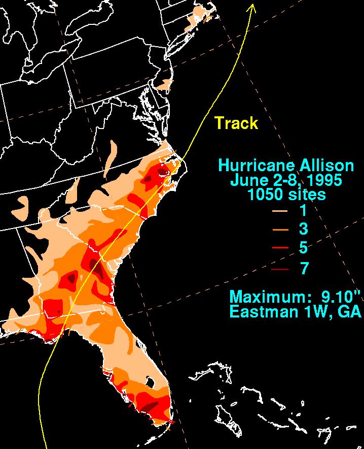 Storm total rainfall map of Hurricane Allison during June 1995.